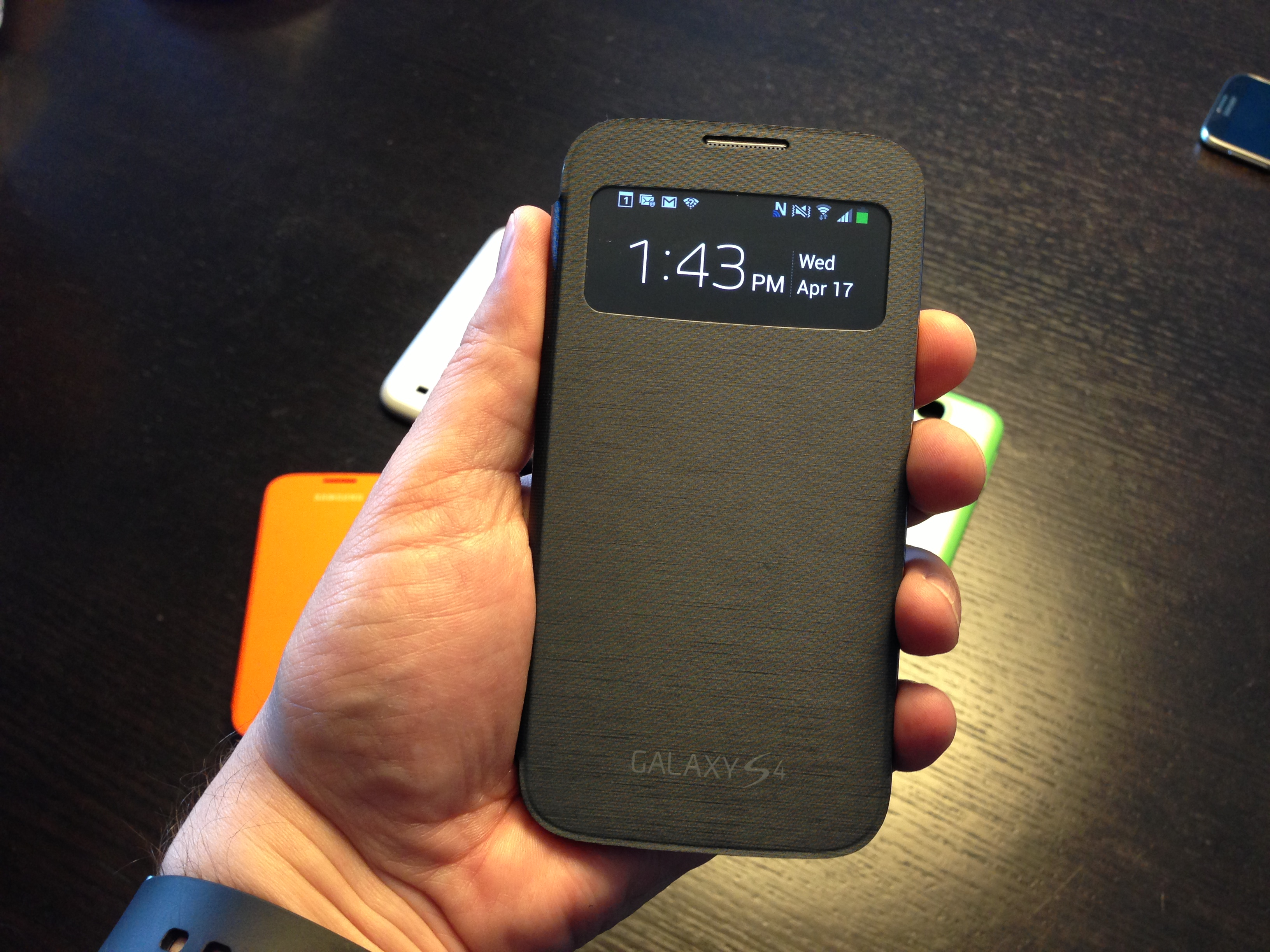 A Samsung Galaxy S4 with black cover.